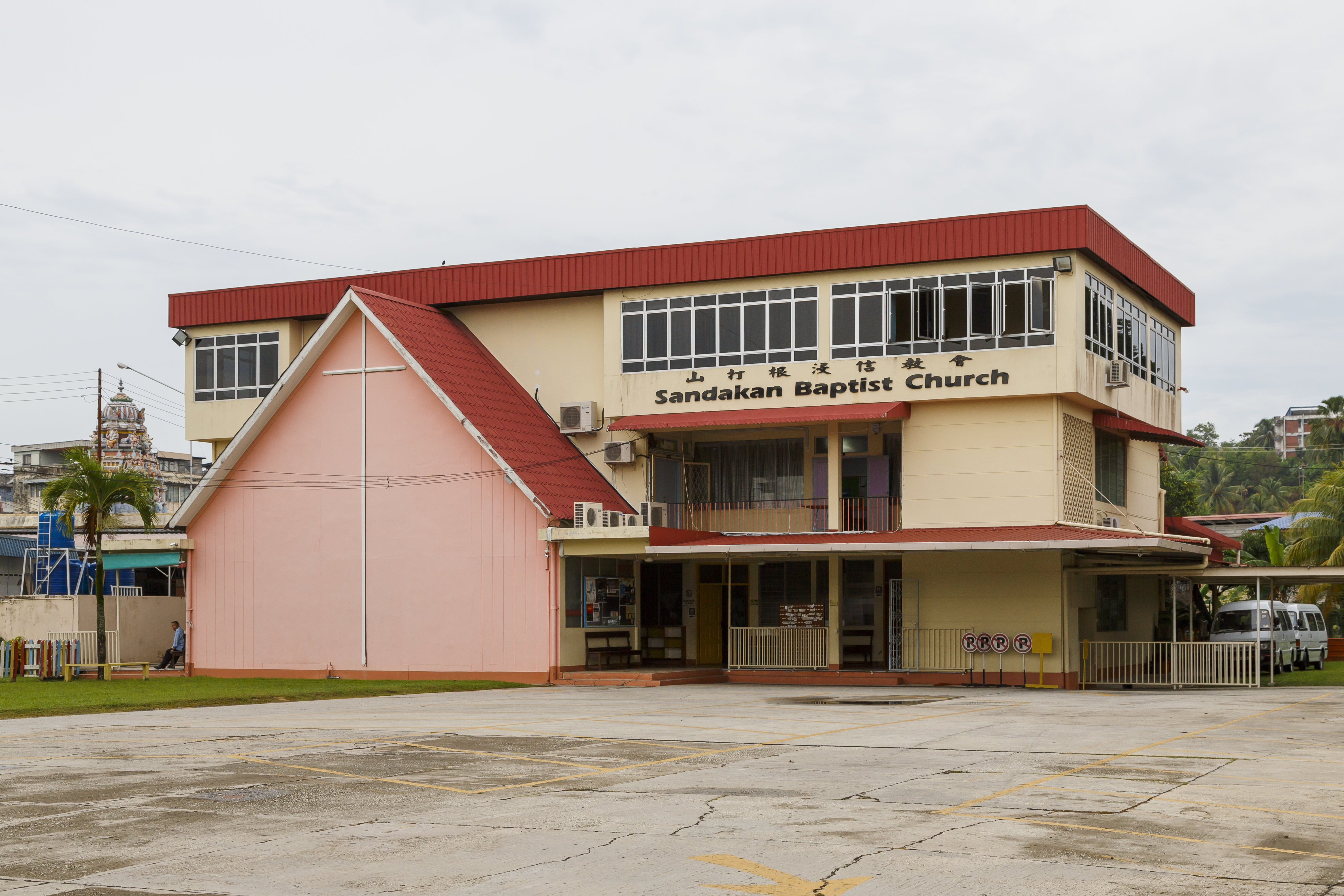 Sandakan, Sabah: Sandakan Baptist Church